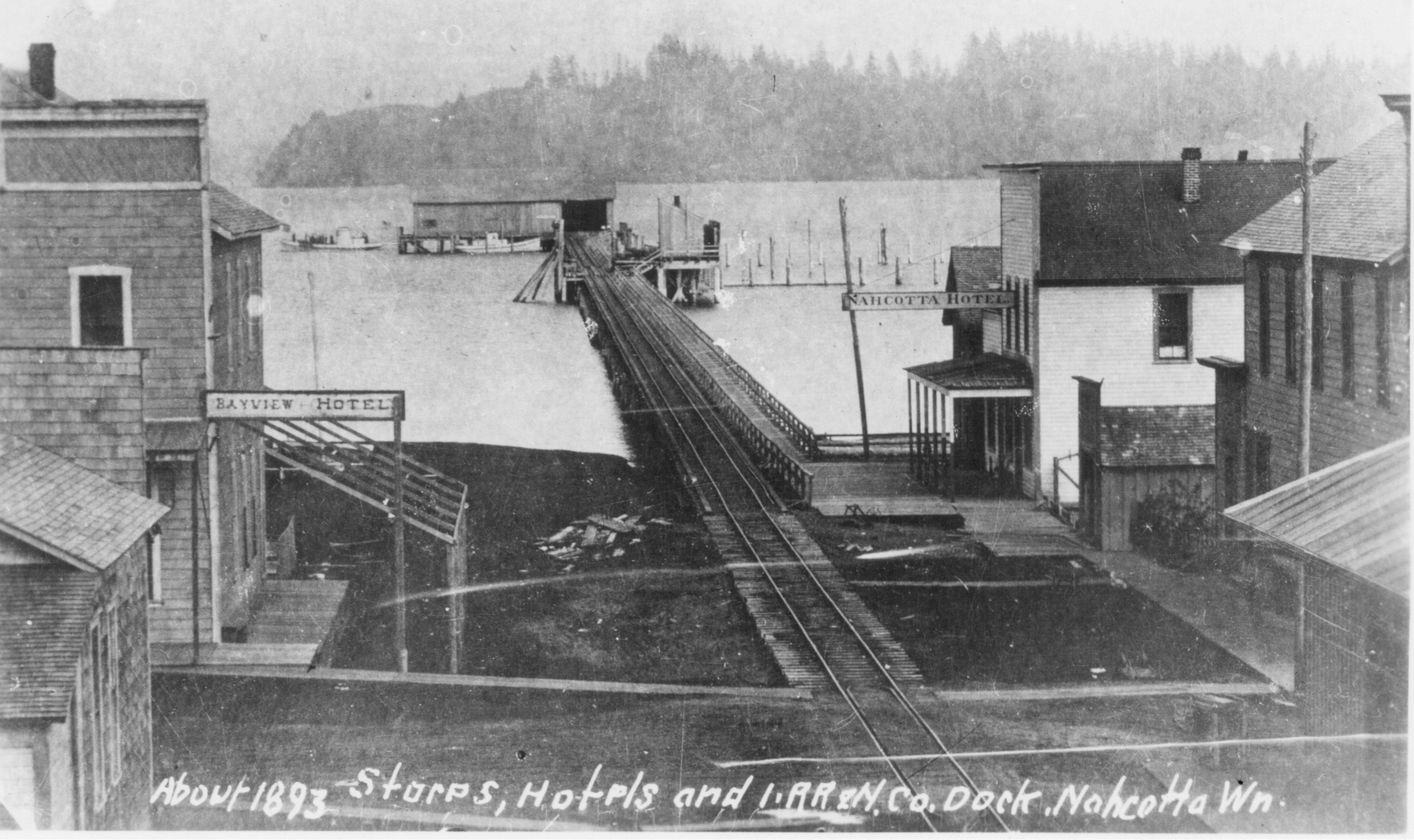 Photographer unknown, photo taken 1893 according to writing on front. From a divided back postcard with no copyright notice and no manufacturer notice. Photo almost certainly published before 1923.